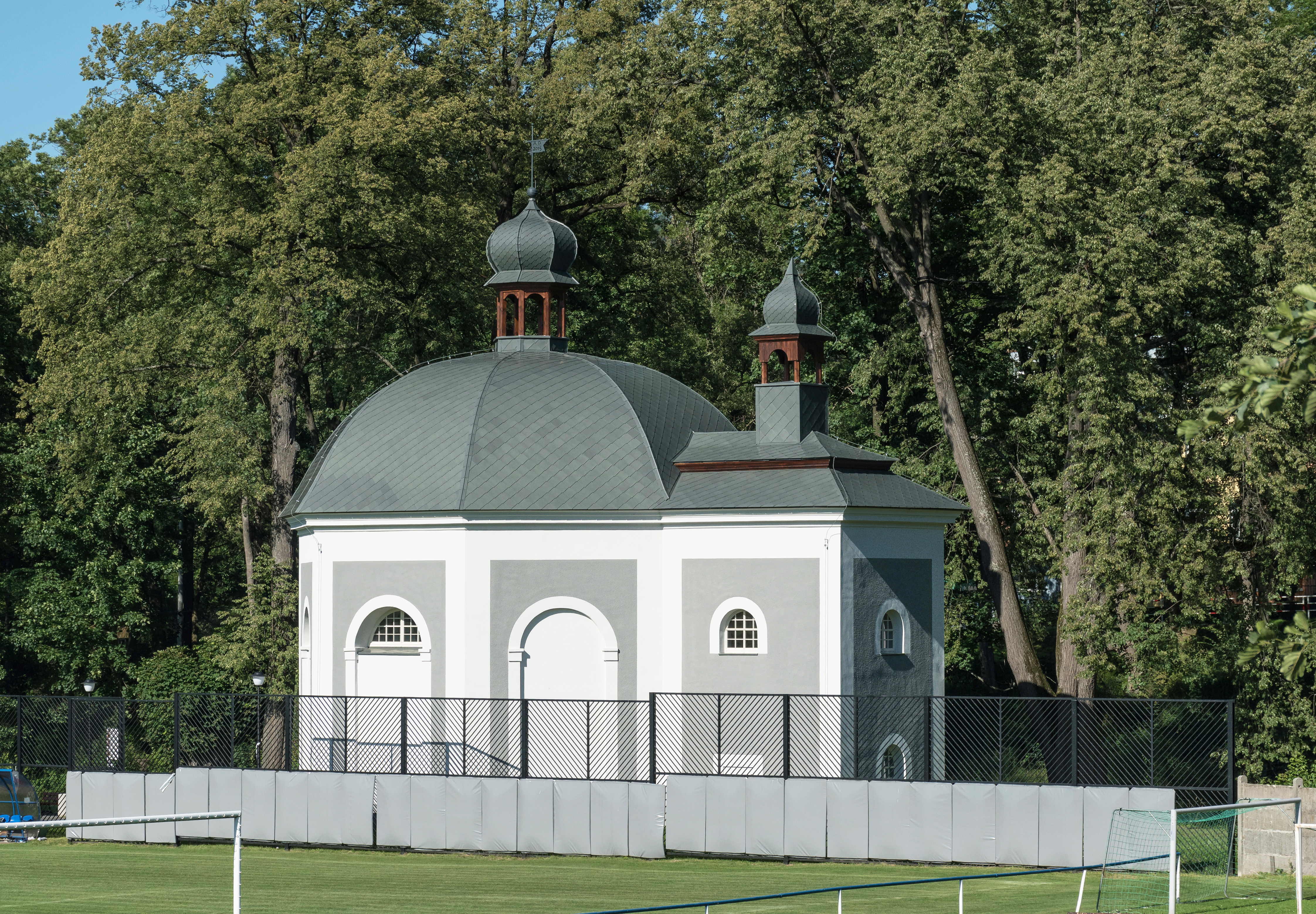 Saint Onuphrius chapel in Stronie Śląskie